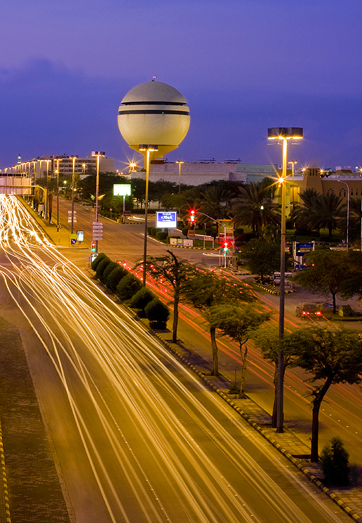 Buraidah